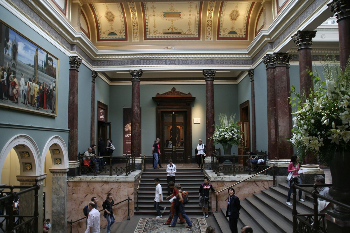 Staircase hall of the National Gallery, London